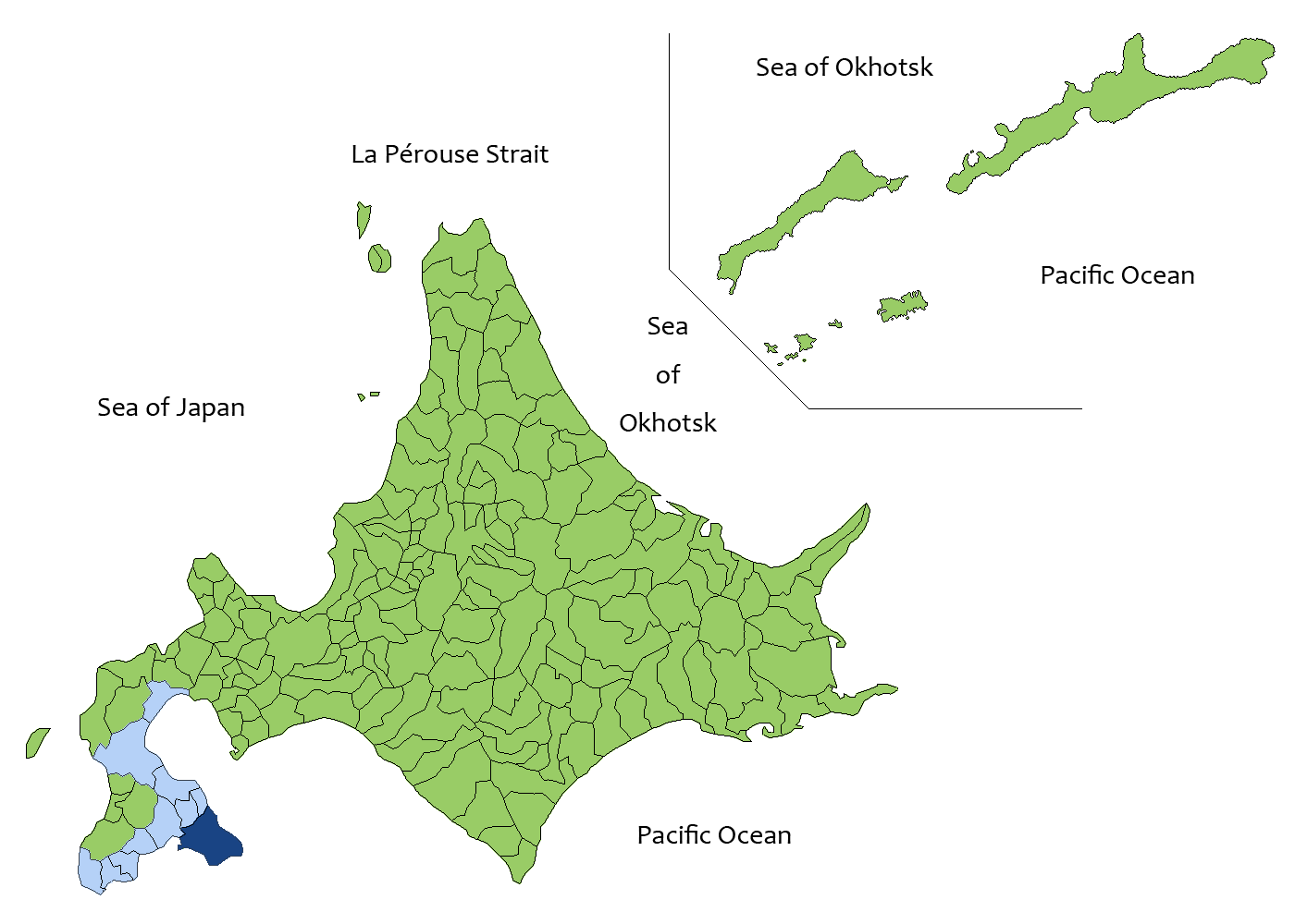 Location of Hakodate city, Hokkaido, Japan in English